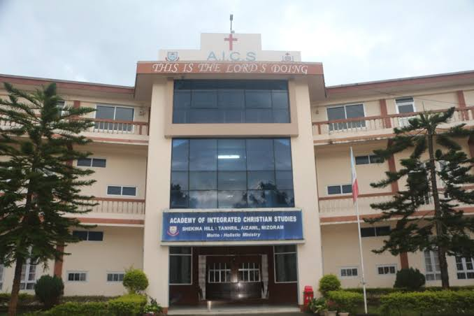 Academy of Integrated Christian Studies